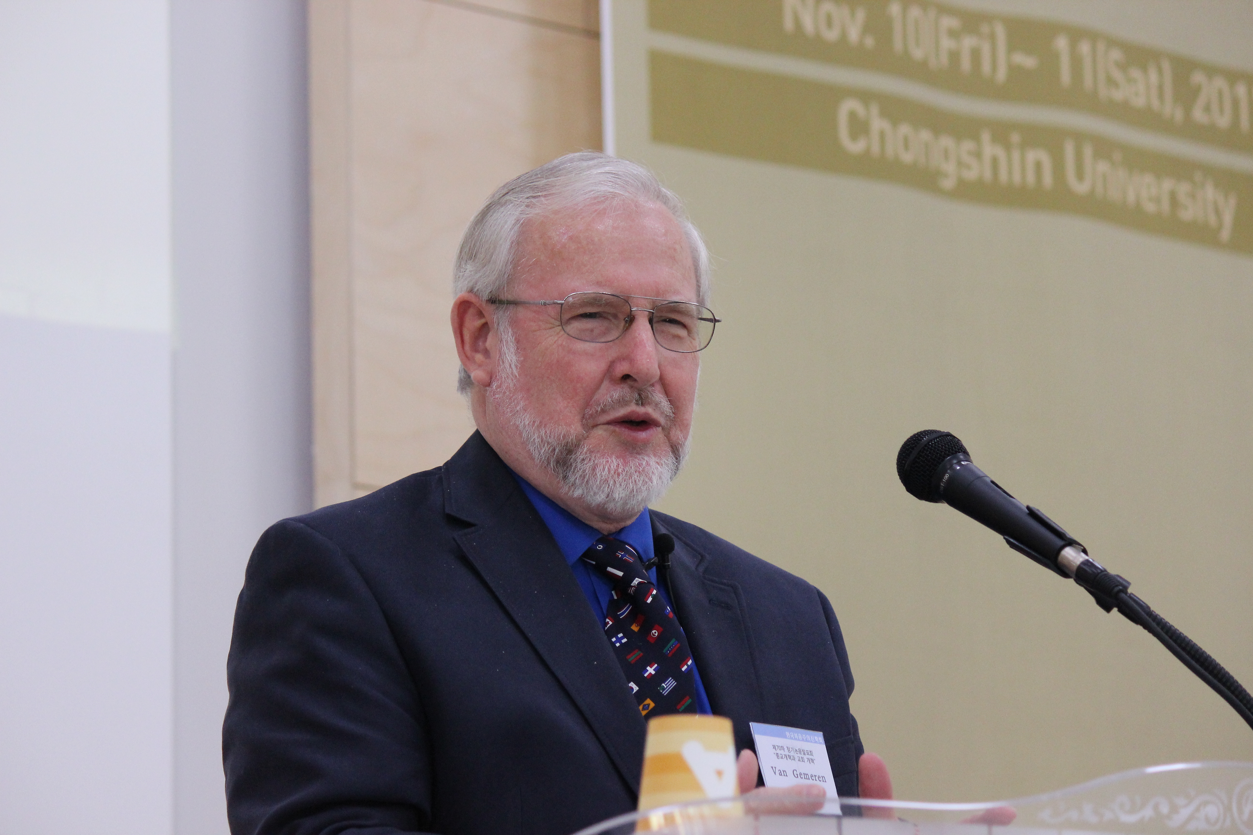 Prof. Willem A. Vangemeren speaking in Conference of Reformation 500th Anniversary in Korean Evangelical Society